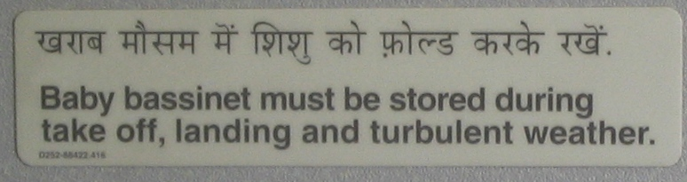 A sign on an Air Deccan aircraft. The Hindi text requests people to keep the baby folded in bad weather (ख़राब मौसम में शिशु को फ़ोल्ड करके रखें.)